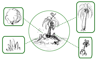 Simplified diagram of a flora - e.g. an island with its plant species highlighted o sono